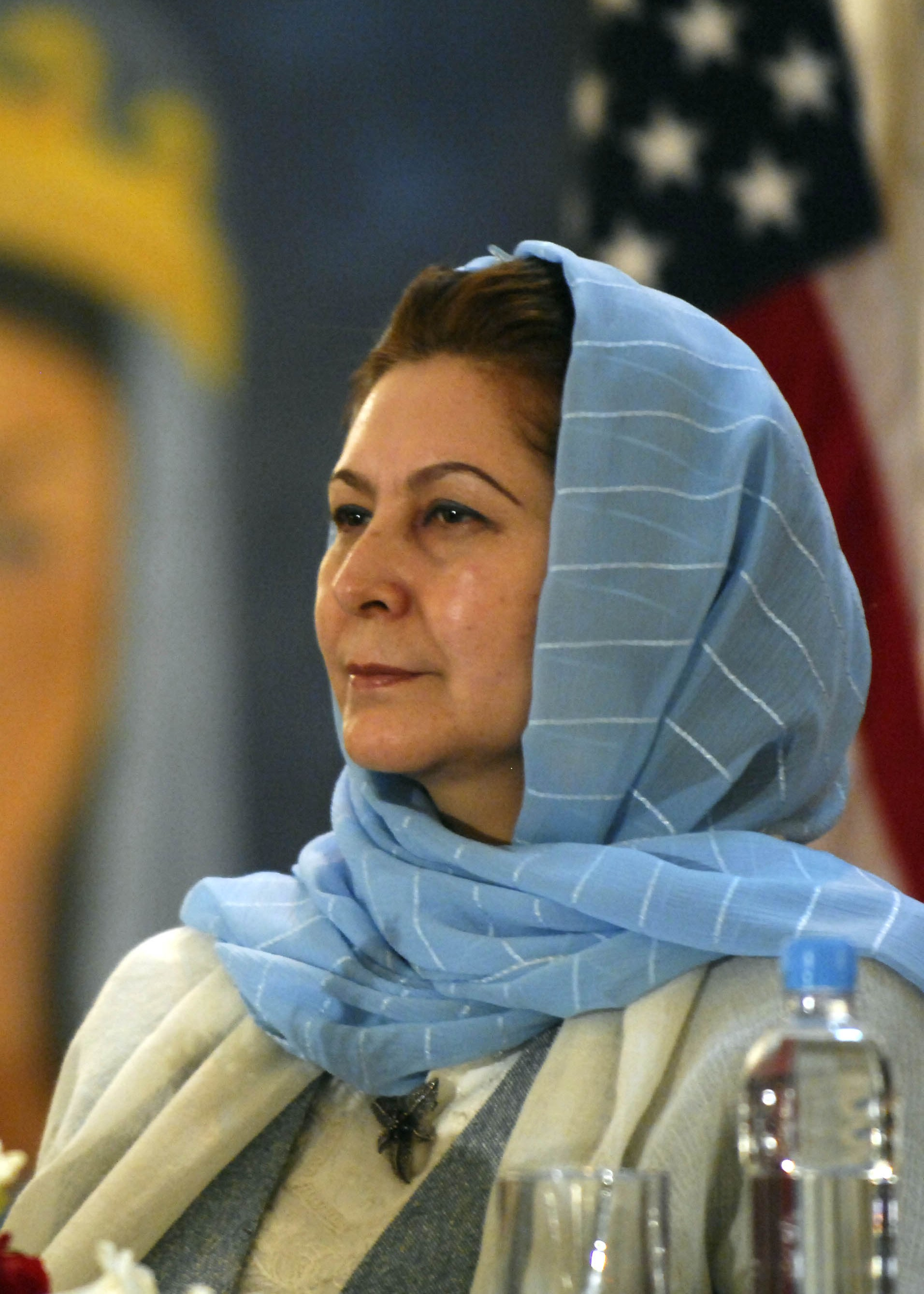 On Wednesday, January 20, 2010 U.S. Ambassador Karl Eikenberry joined Acting Minister of Women’s Affairs Husn Ban Ghazanfar to launch the Ambassador’s Small Grants Program (AGSP) to support gender equality in Afghanistan.